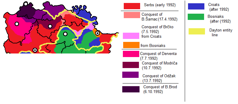 fall of Posavina